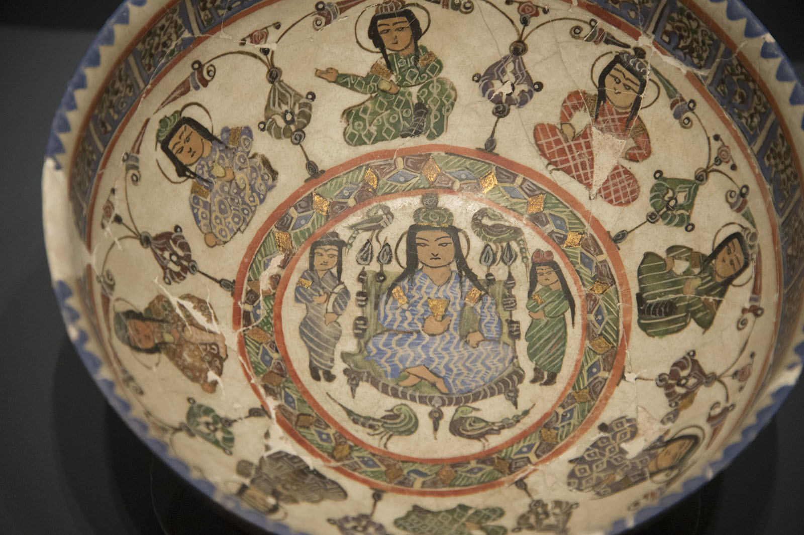 Bowl, 12th – 13th century, Seljuk